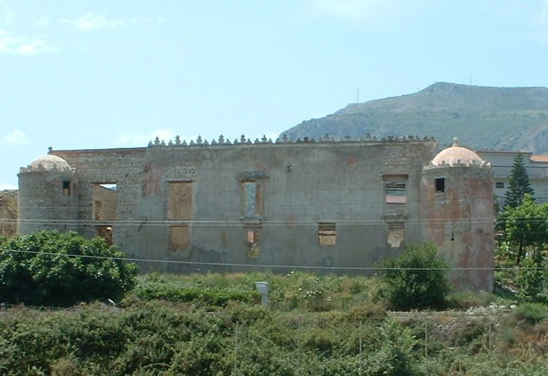 The medieval castle of Acquedolci, in Sicily, in Italy